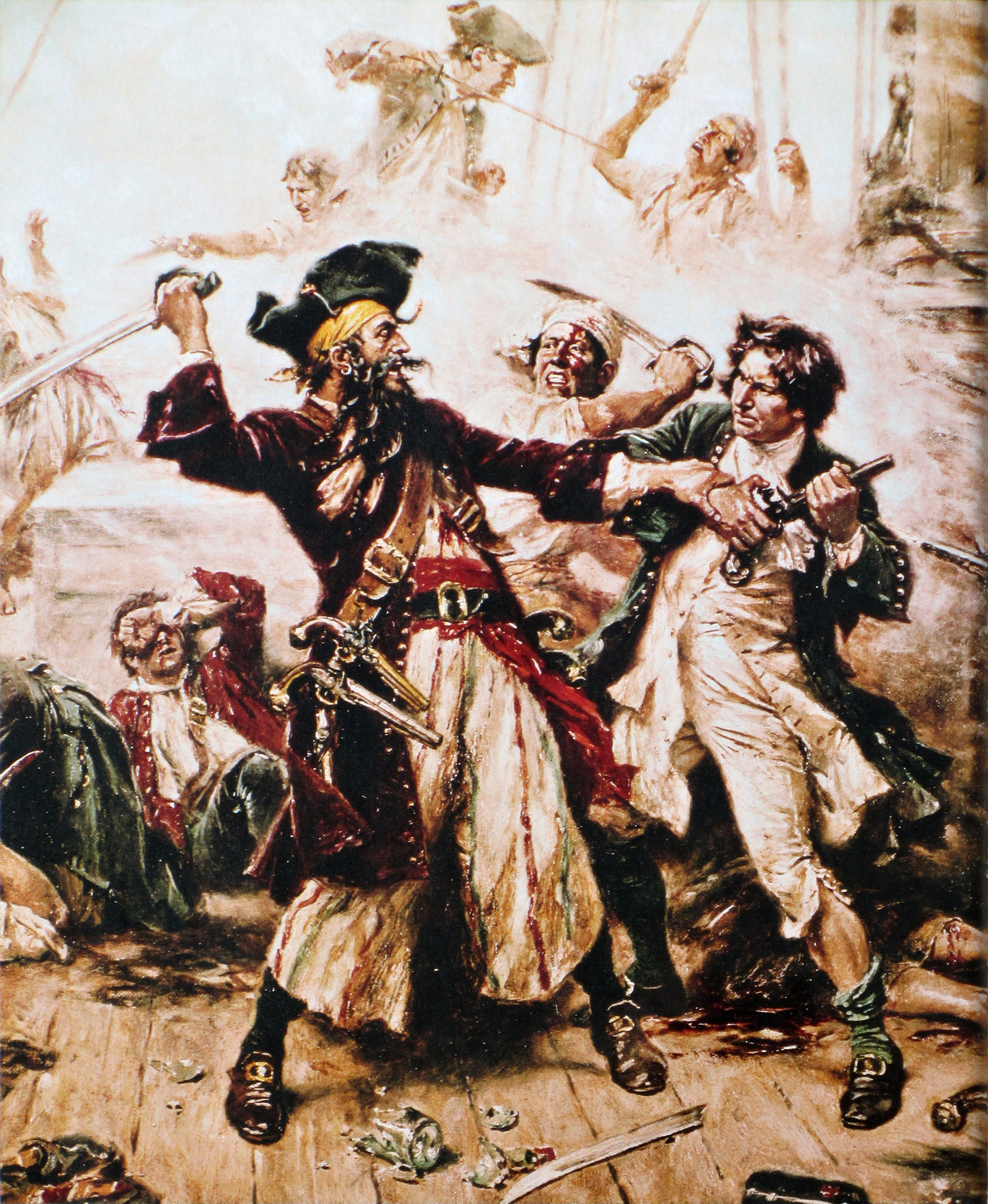 Capture of the Pirate, Blackbeard, 1718 depicting the battle between Blackbeard the Pirate and Lieutenant Maynard in Ocracoke Bay